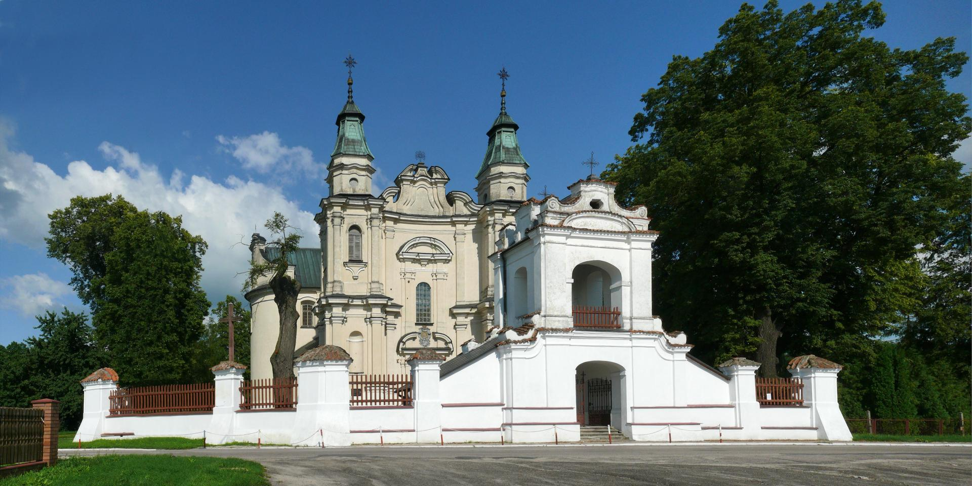 Catholic church and gate - belfry in Ostrów Lubelski, built in 1755 year by Paolo Fontana